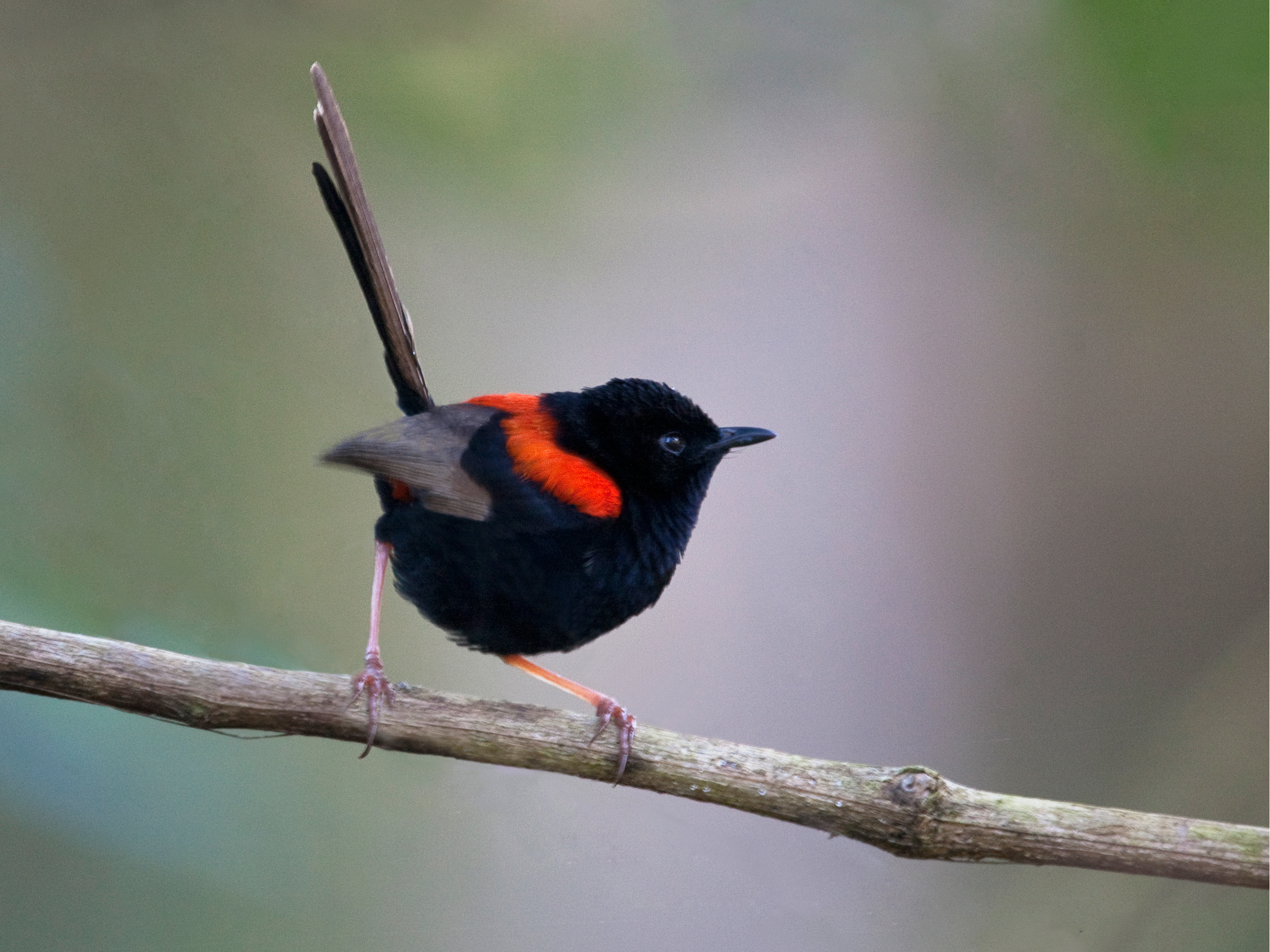 Red-backed Fairy-wren